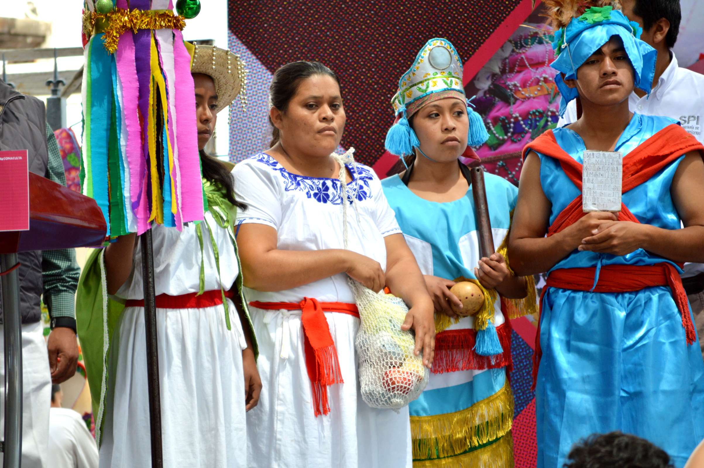 Representatives of the Otomi people at the 2015 Muestra de Indumentaria Tradicional de Ceremonias y Danzas de Michoacán, part of the Tianguis de Domingo de Ramos in Uruapan, Michoacan, Mexico